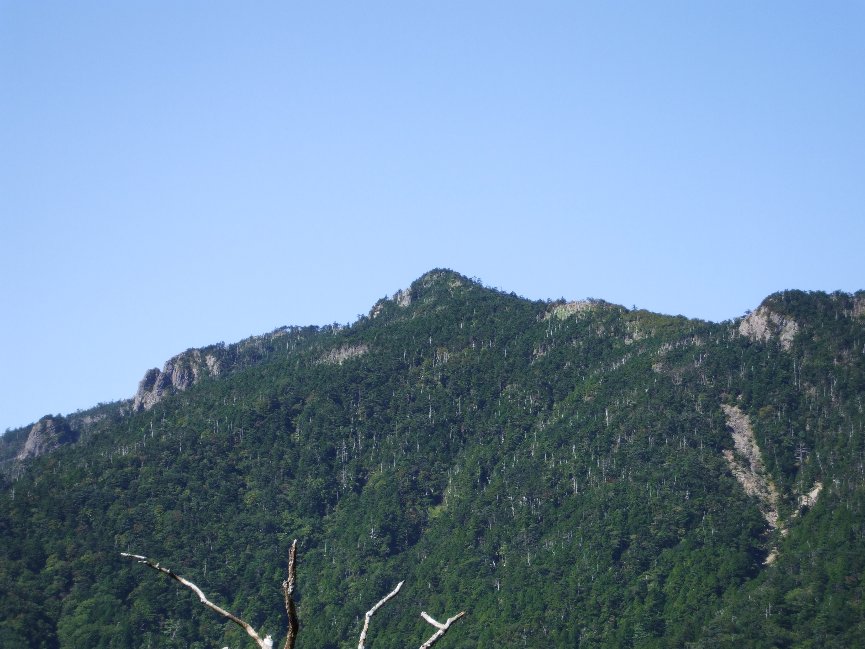 Mount Hakkyo, Nara, Honshu, Japan, from east.